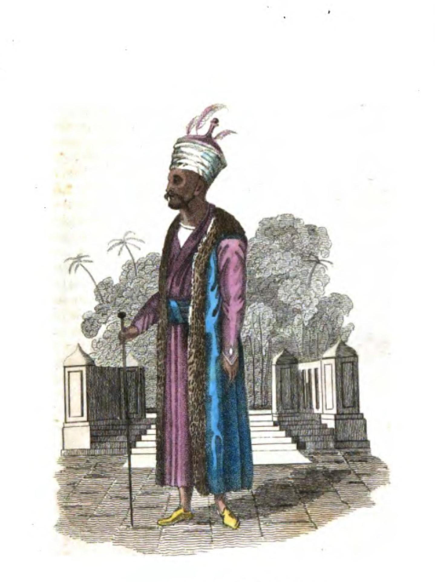 Master of Ceremonies. Extracted image, p.42 from the book "Persia" File:Frederic Shoberl - Persia.djvu